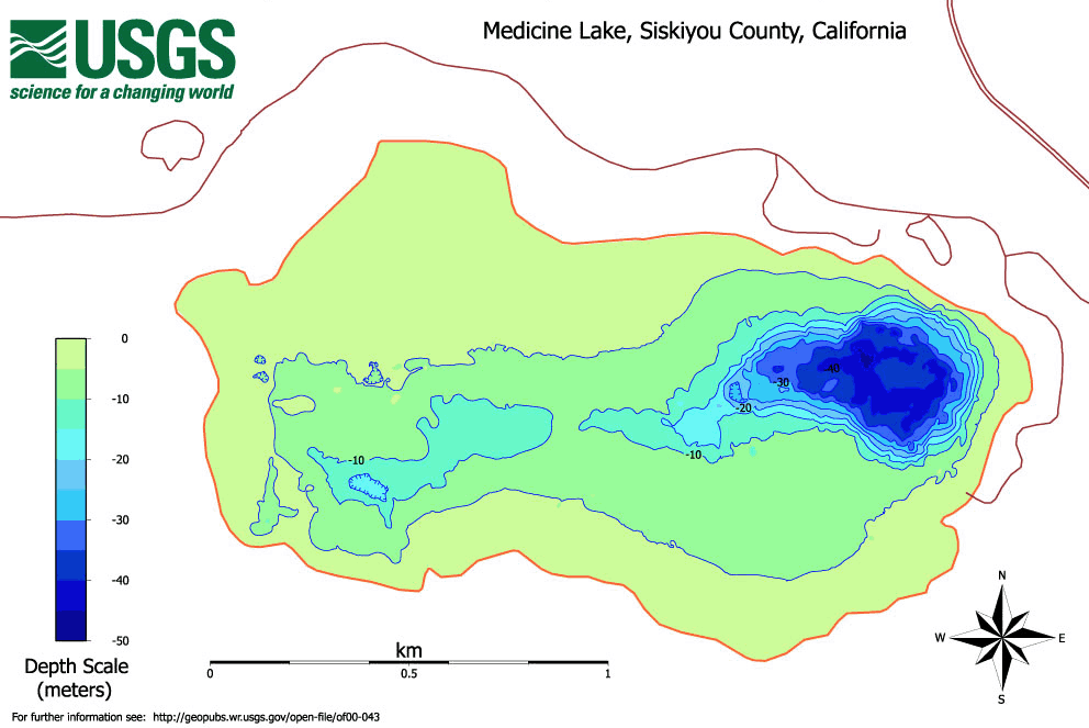 A bathymetric map of the lake (in meters) of Medicine Lake, CA